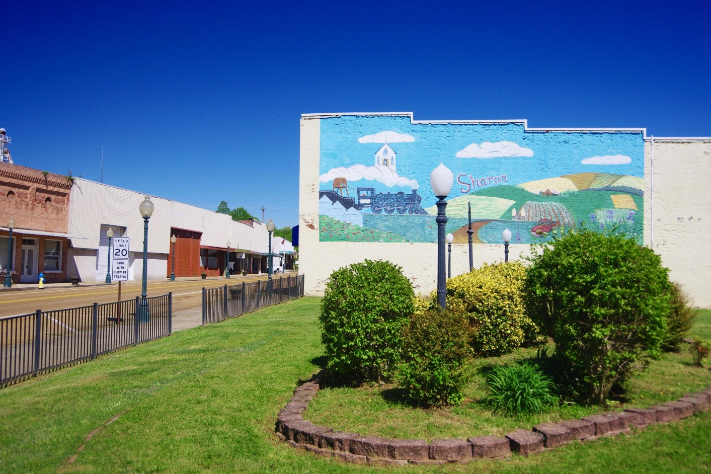 Gardner-Crowder Memorial Park in Sharon, Tennessee, United States.